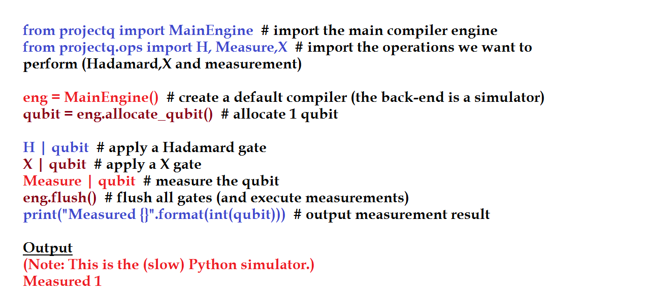 How to add a quantum gate using projectq qith Python